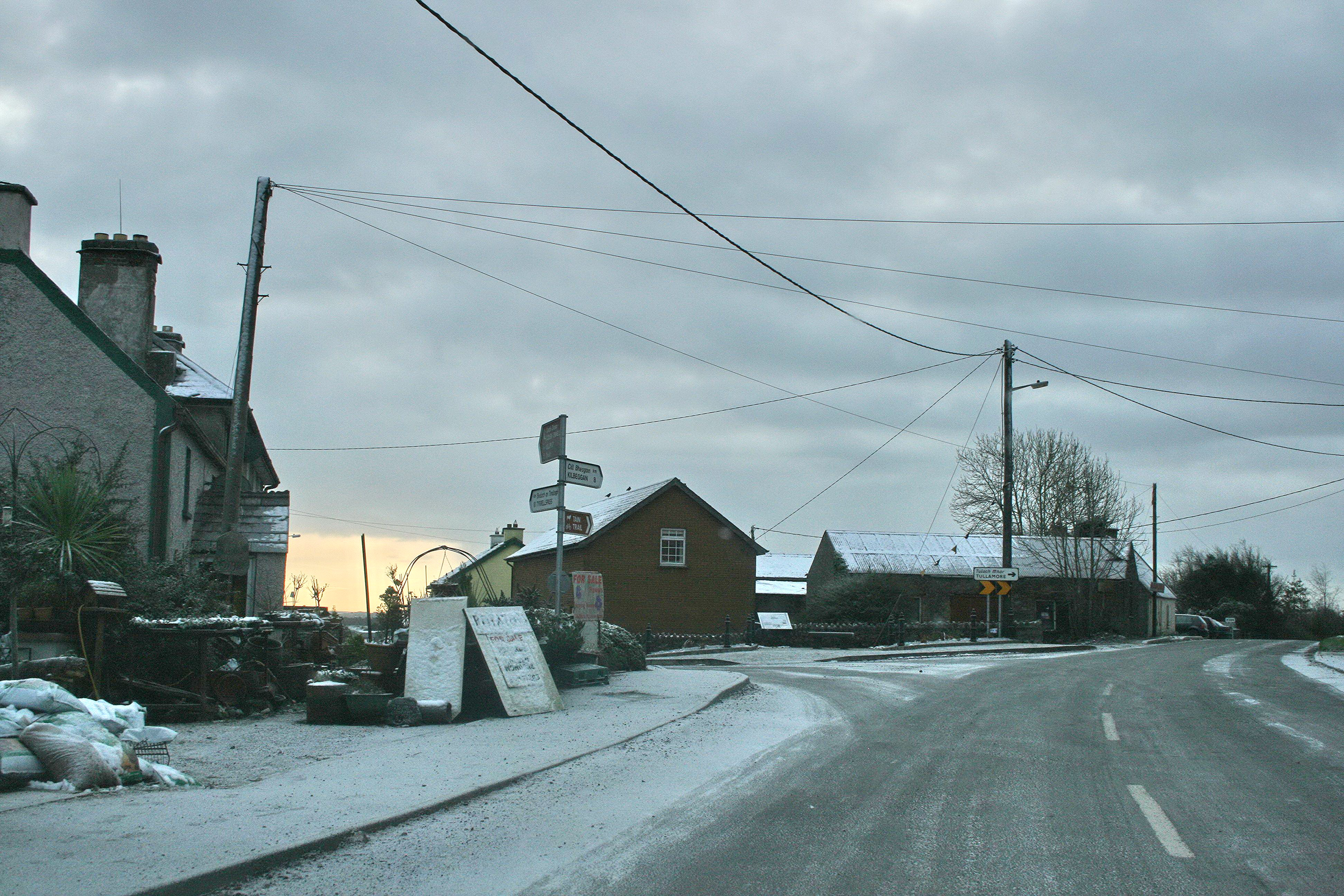 Castletown-Geoghegan, in dark County Westmeath, Ireland